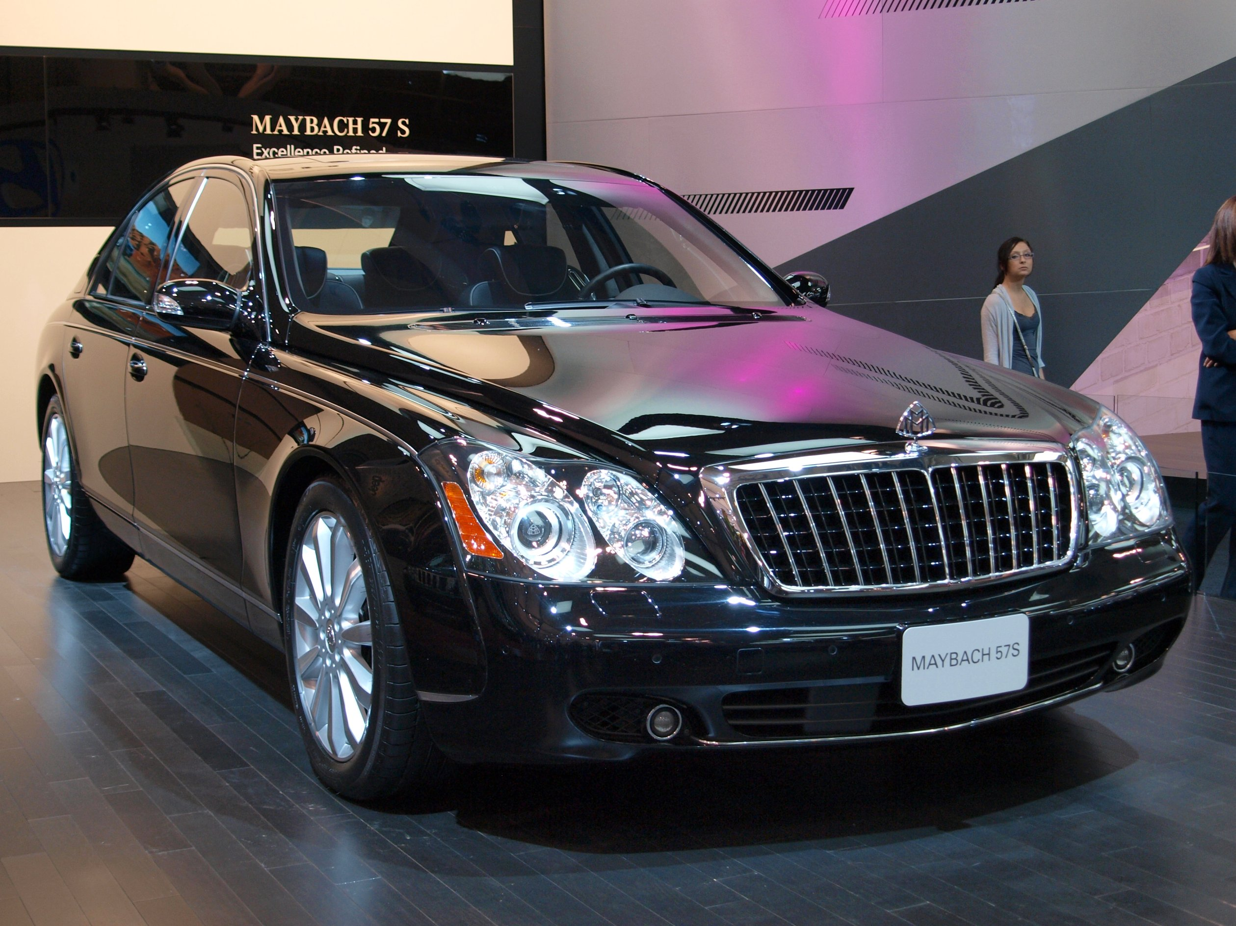 2011 Maybach 57S